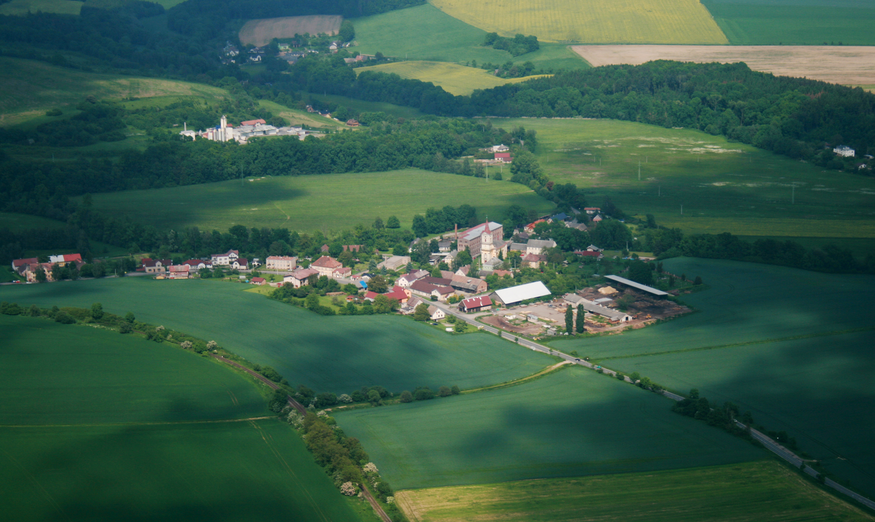 Village Heřmanice near of town Jaroměř from air, eastern Bohemia, Czech Republic